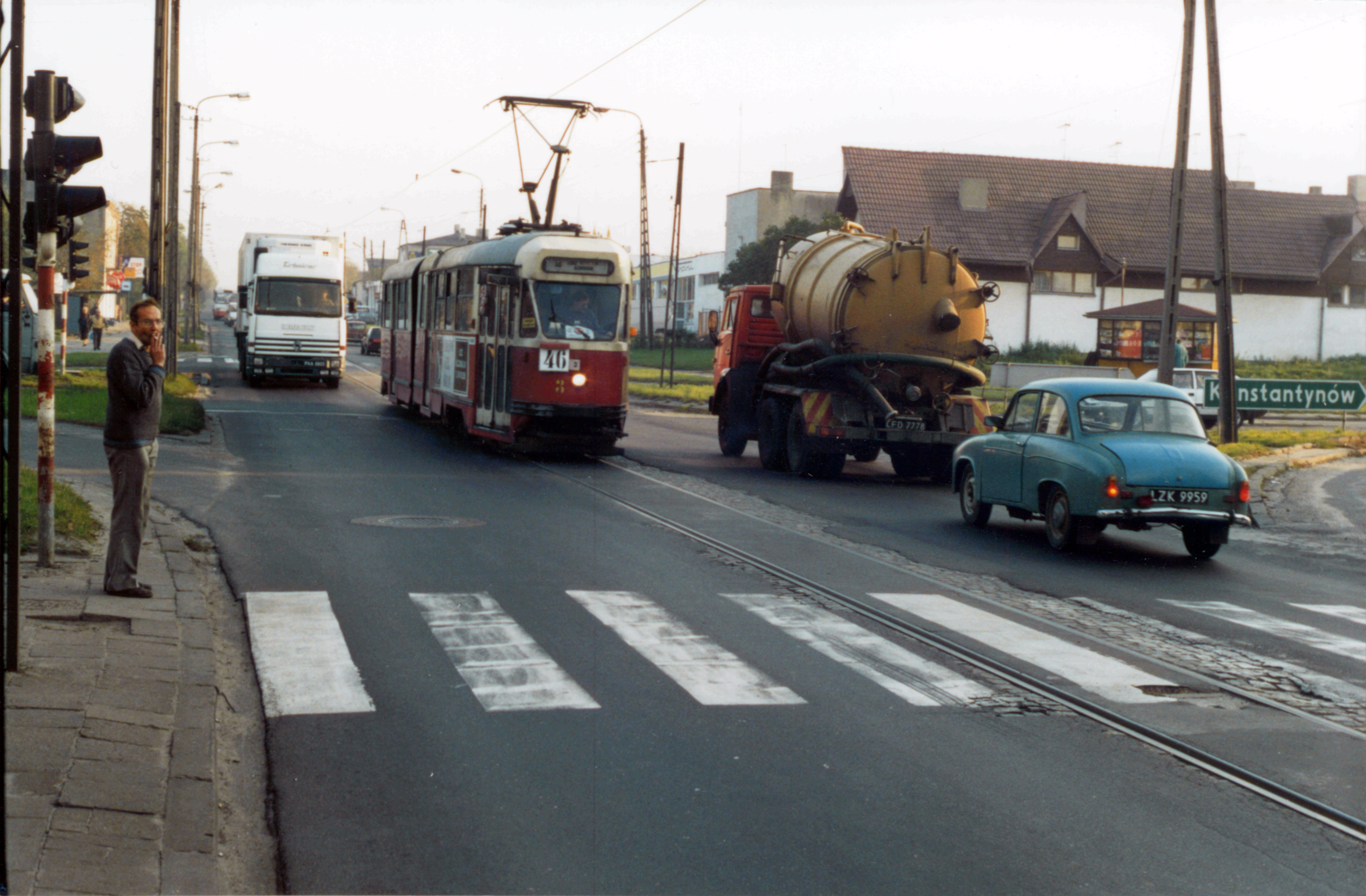 Tram line 46 on the national road No. 1 in Zgierz, Poland (part of the european route E75). In early 1996 the road closed for modernization. Tram wagon Konstal 803N side number 3 belongs to Międzygminna Komunikacja Tramwajowa Sp z o.o. in Łódź.